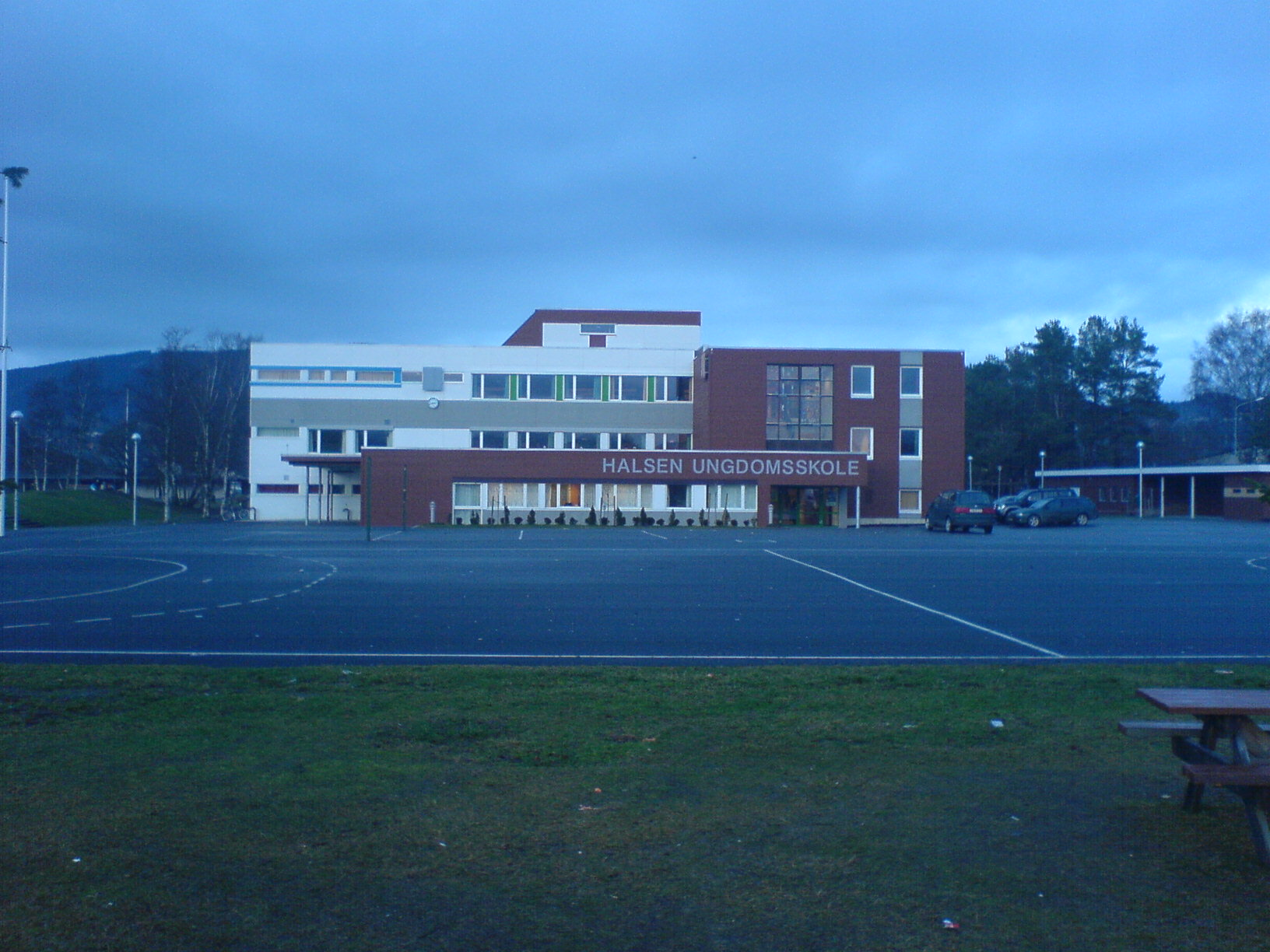 Halsen ungdomsskole (Halsen Middle School) in Stjørdalshalsen in Norway, at November 19th, 2007. The school was rehabilitated in 2006, and stands today as modern and with a fresh, new look. The Principal is Torgeir Størseth.